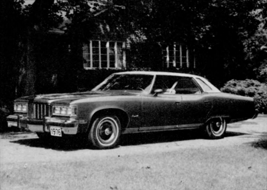 Pontiac Bonneville Brougham